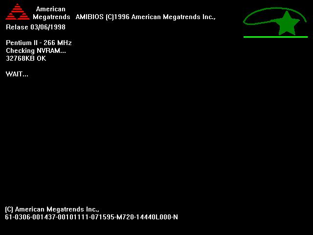 Boot